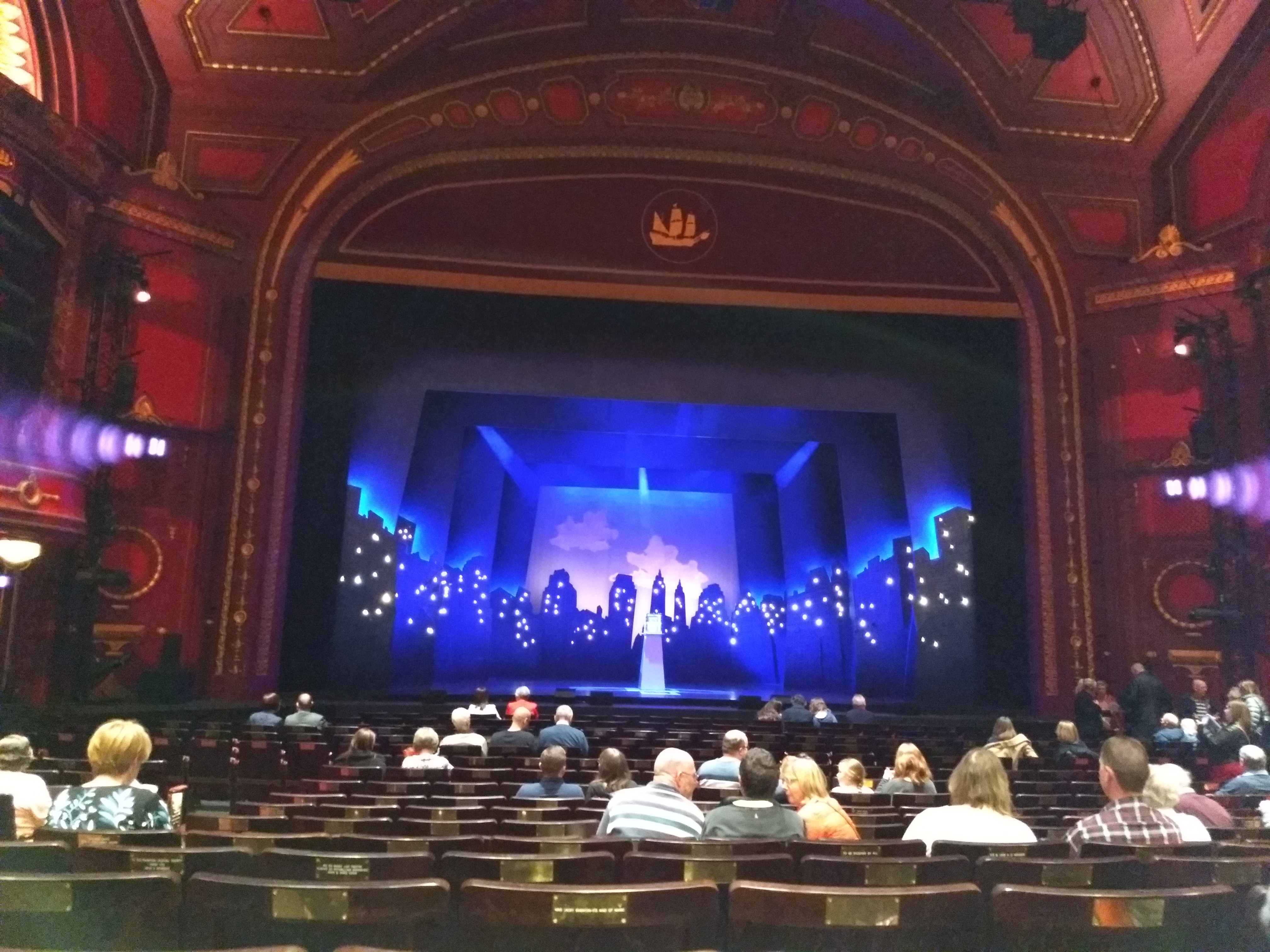 The opening stage set for "The Comedy About a Bank Robbery" at Southampton's Mayflower Theatre